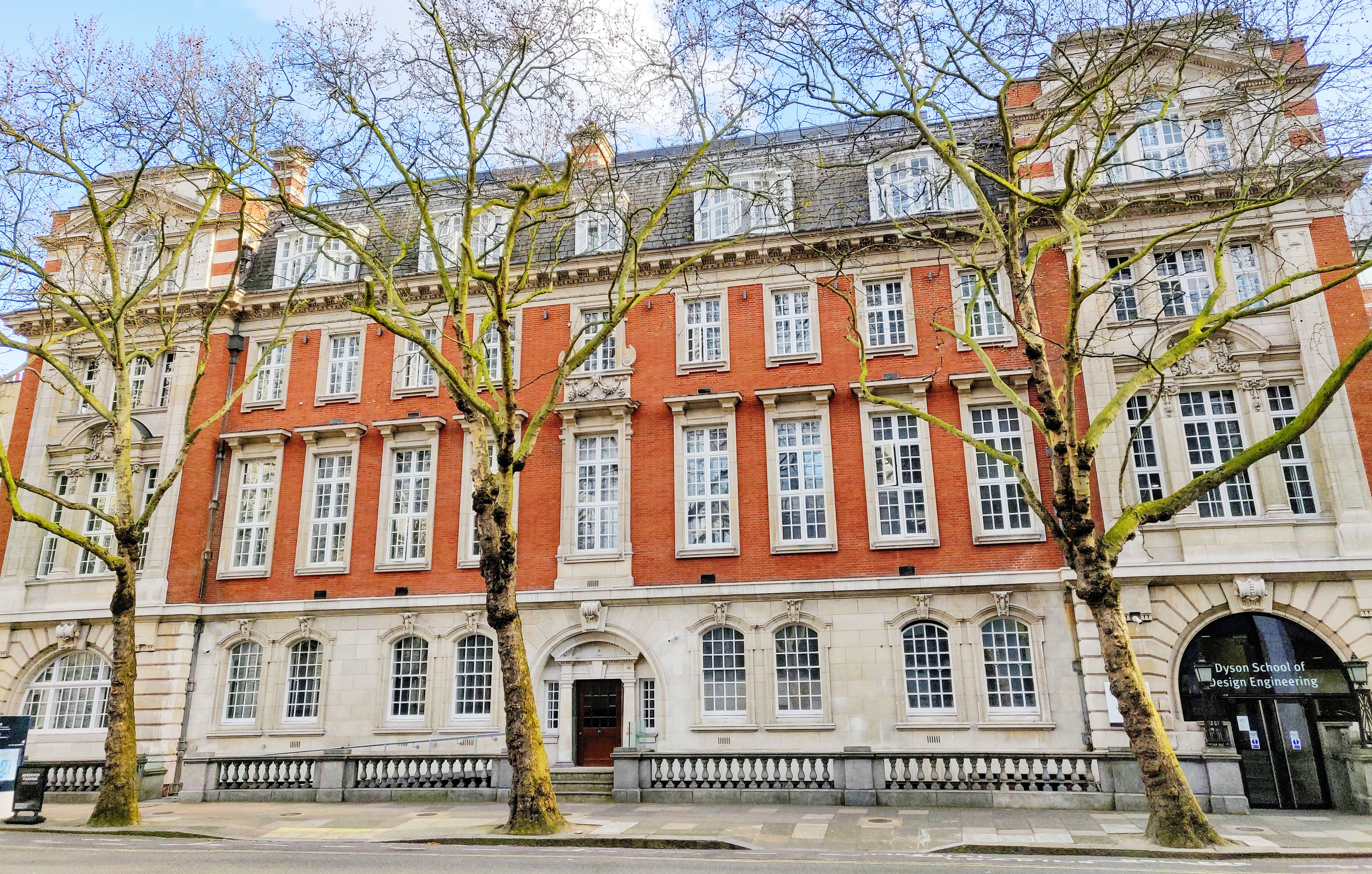 The Dyson Building is home the the eponymous design engineering department at Imperial College, bought from the Science Museum with the funding of James Dyson